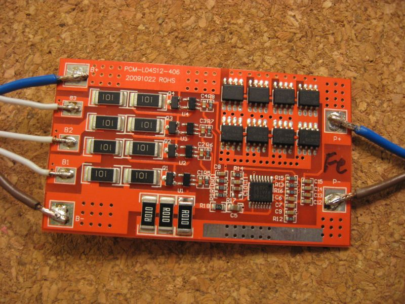 safety circuit for 4 cell LiFePO4 batteries with balancer